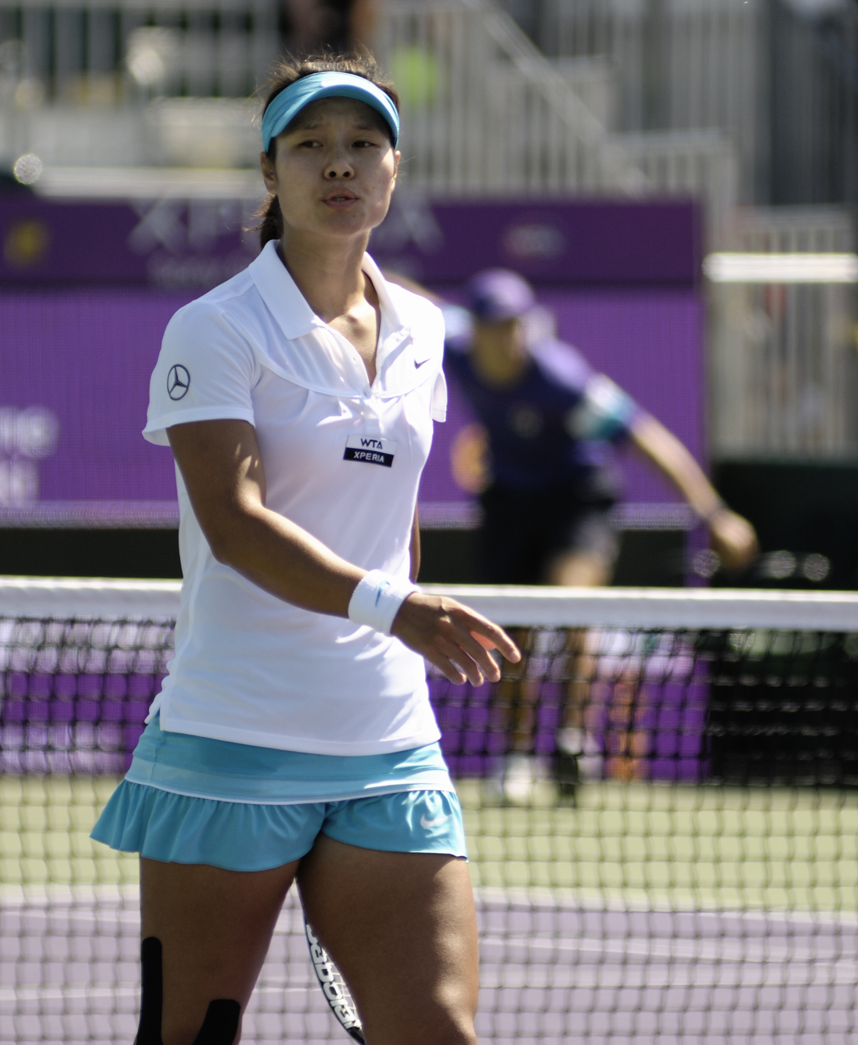 Li Na at the Sony Ericsson Open